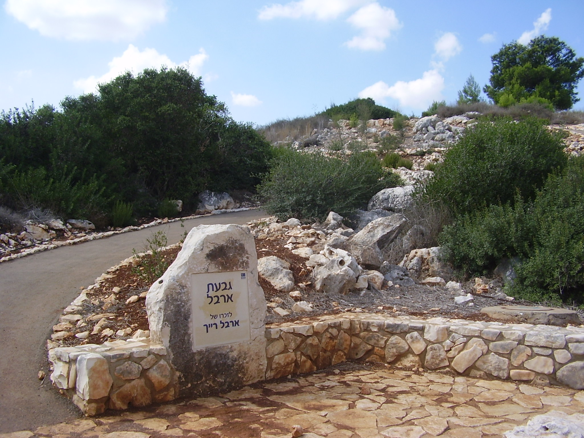 Arbel Hill in Yuvalim